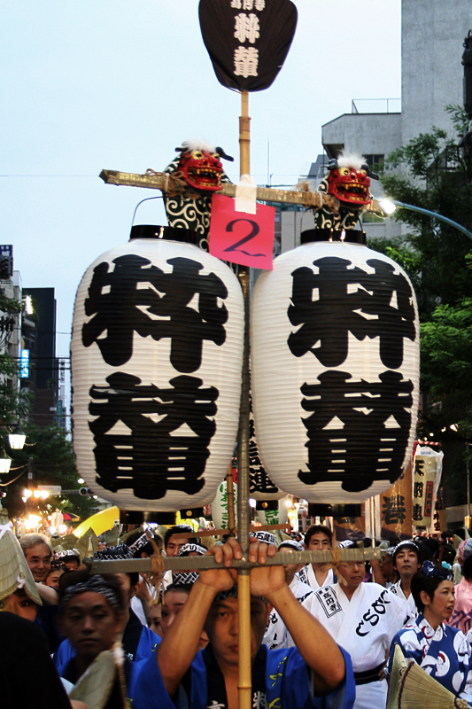 Awa Odori festival 2006 at Kōenji, Tokyo, Japan. See also: Koenji Awa Odori Dance Festival